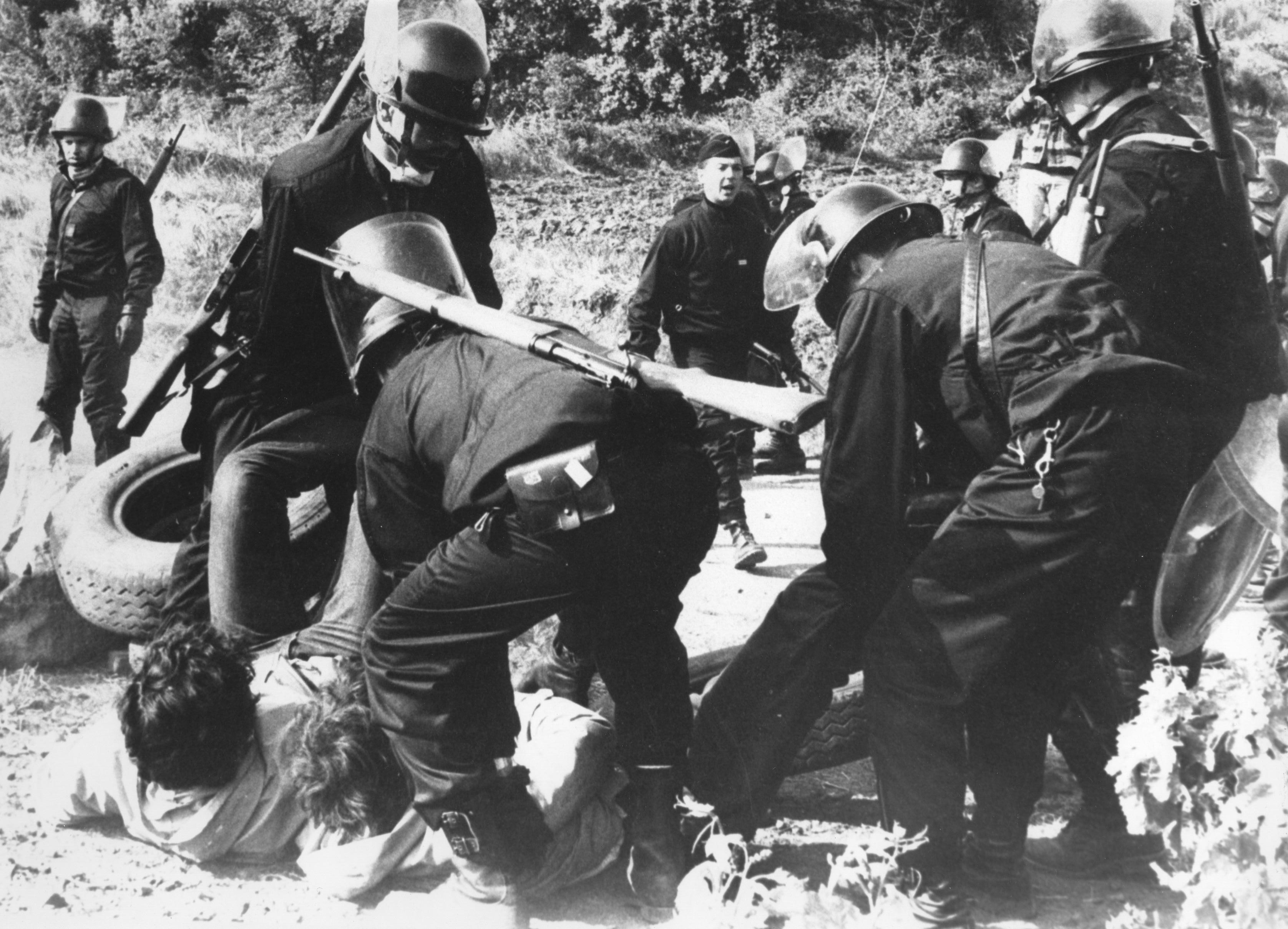 Policemen and demonstrators during the military camp extension protest, Larzac, France.